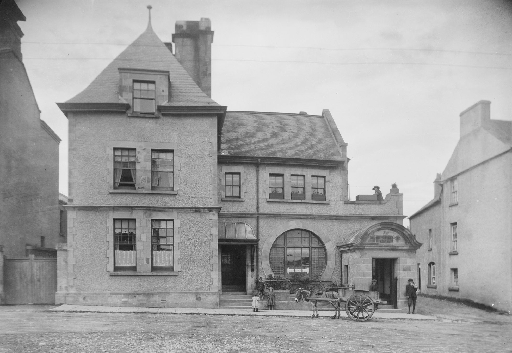 Another building for today with a unique design for a bank. While we haven't been able to refine the date range significantly, there's a suggestion that the lady tending the window boxes (yes - there she is over the door on the flat roof) is a member of the household of William Charles Smith, who was manager of the branch in the early 20th century. We also learn that the building's Art Nouveau architecture was possibly designed by W.H. Byrne or Godfrey William Ferguson, and dates to c.1905 (plus or minus a few years)... Photographer: Unknown Collection: Eason Photographic Collection Date: between ca. 1900-1939 NLI Ref: EAS_4038 You can also view this image, and many thousands of others, on the NLI’s catalogue at